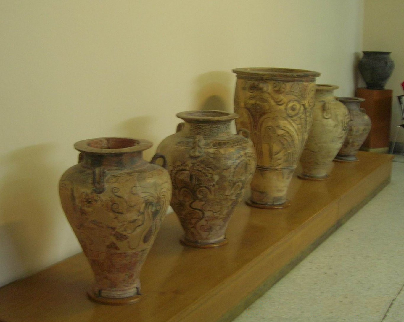 Archaeological Museum of Herakleion, Hall IX. Late minoan amphorae, from left to right: Amphora from Tomb of the Double Axes (LM II b) showing Haledon with Ten Tentacles. Amphora from Knossos (LM II) shows papyruses in rocky terrain. Amphora from Staircase Landing of Royal Villa with Papyrus Decoration in Painted Relief. Amphora from North-West Palace Border (LM II b), shows an octopus. Amphora from Tylissos (LM I b) with Beaded Festoons and Pendant Crocus Flowers combined with Zones of Marine Motives.